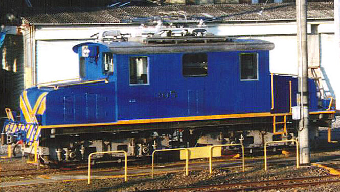 Nagoya Railroad Type Deki305 Electric locomotive(Japan).